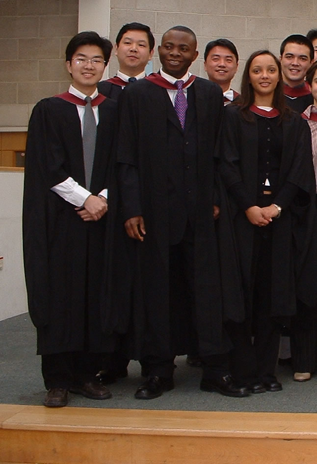 University of Bristol Master's Gown (and neckband of hood).